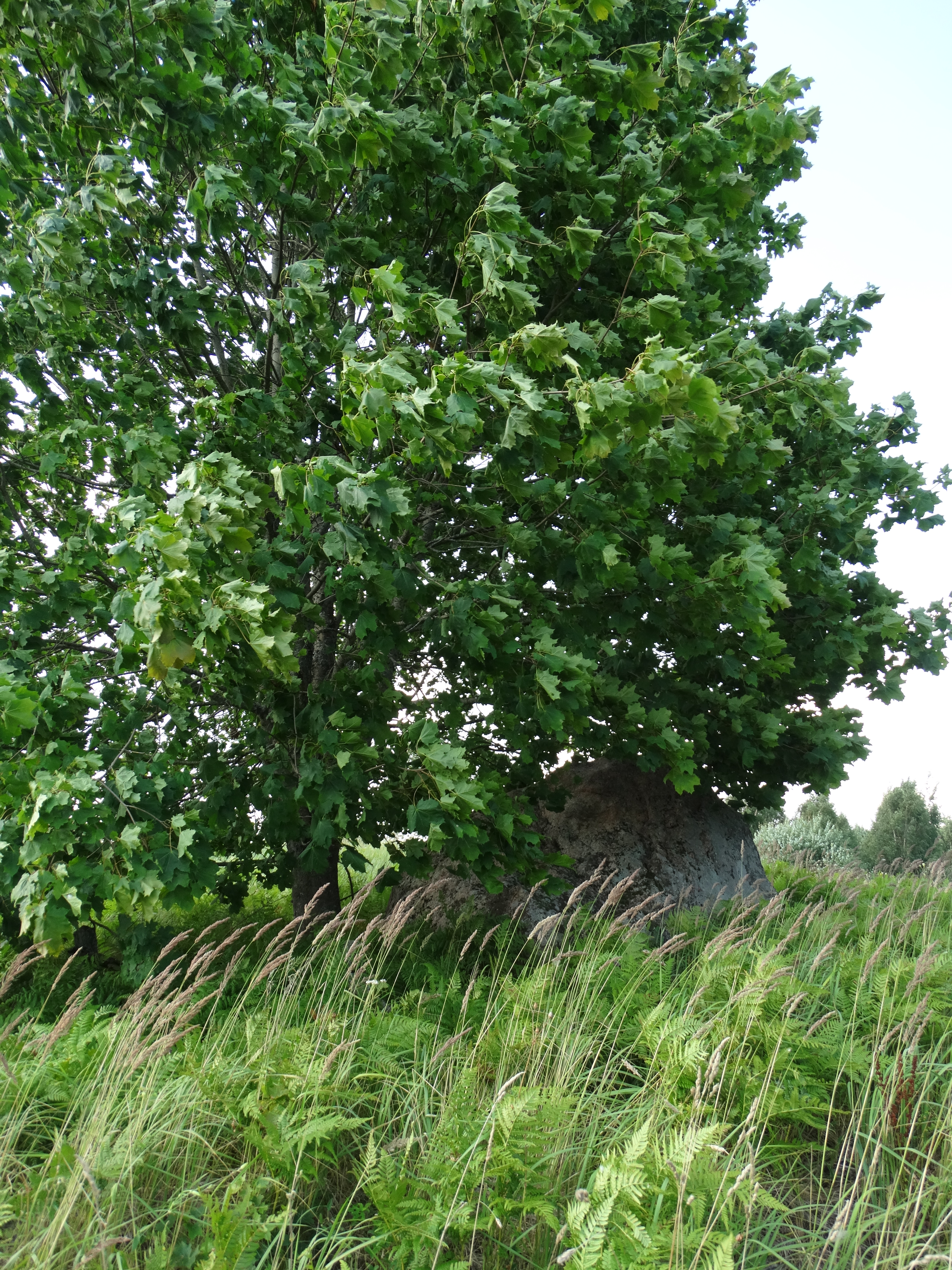 Šakaliai, protected stone, Švenčionys District, Lithuania